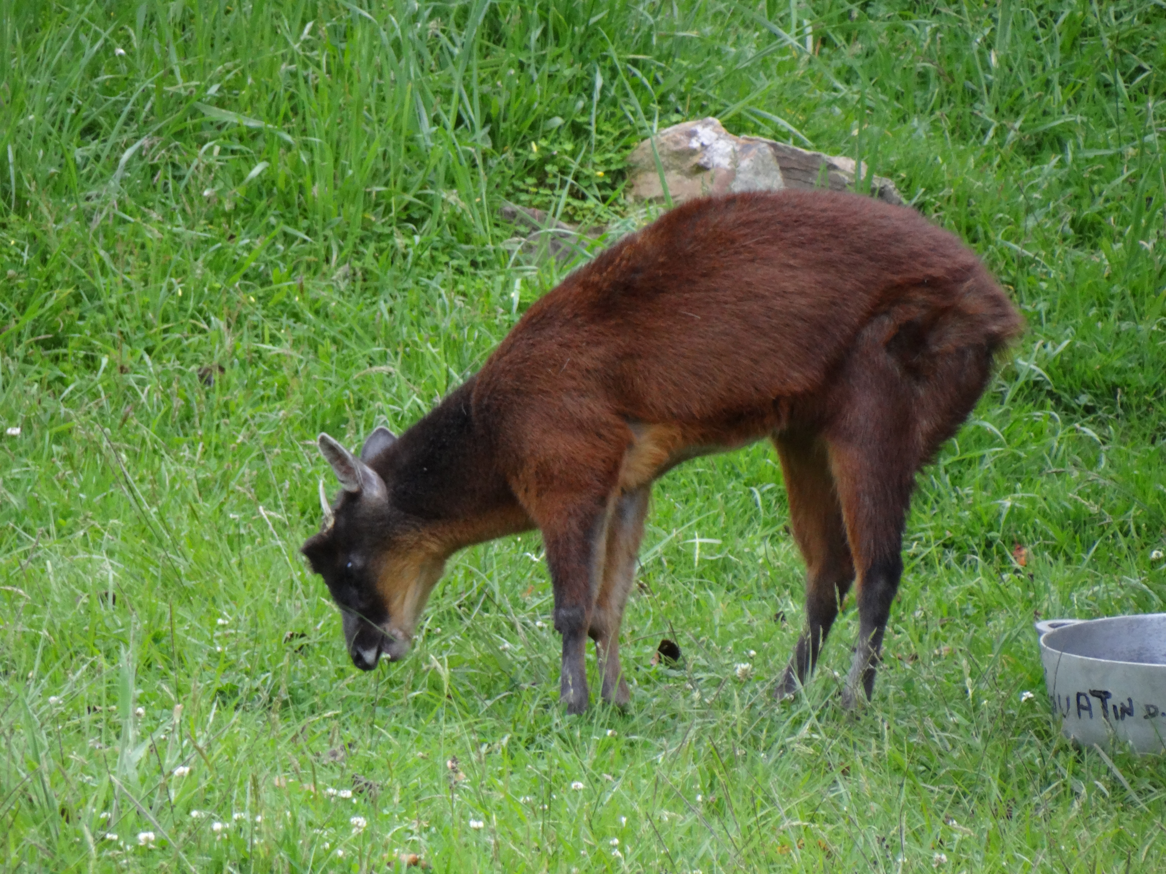 Mazama rufina